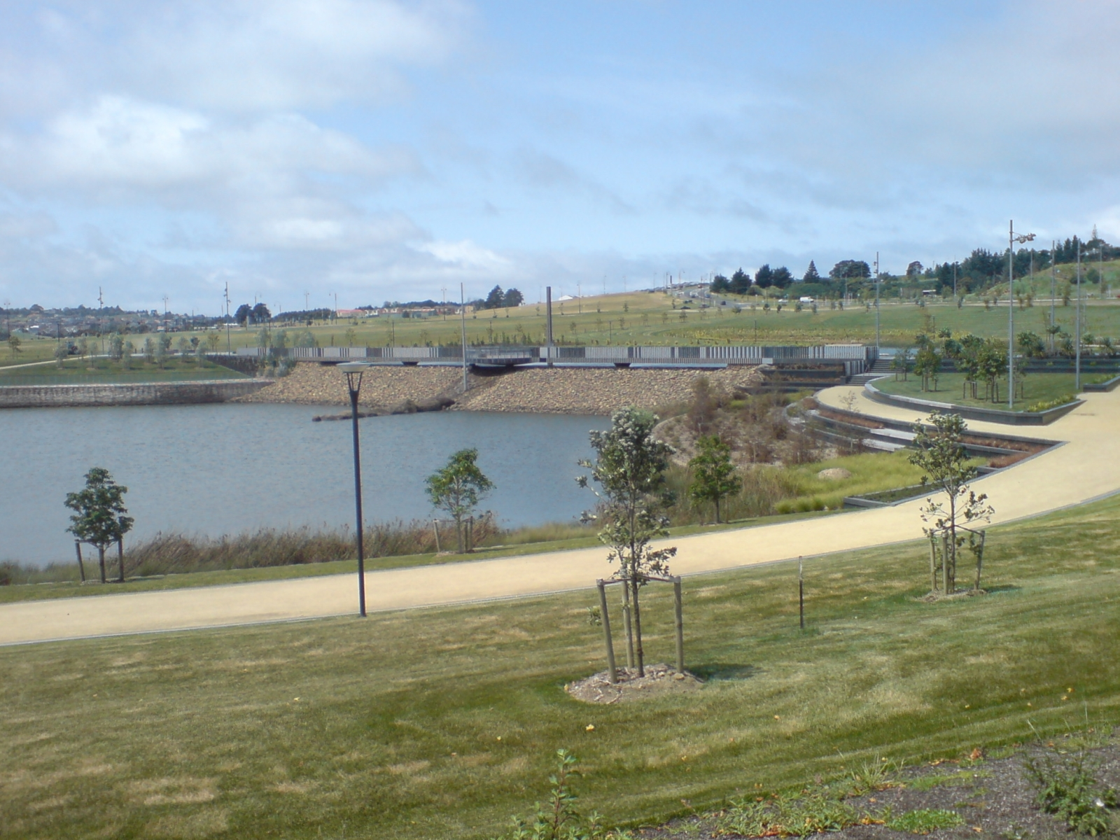 The Albany Lakes Park (just finished, with the landscaping still to "grow in") in Albany, North Shore City, New Zealand.